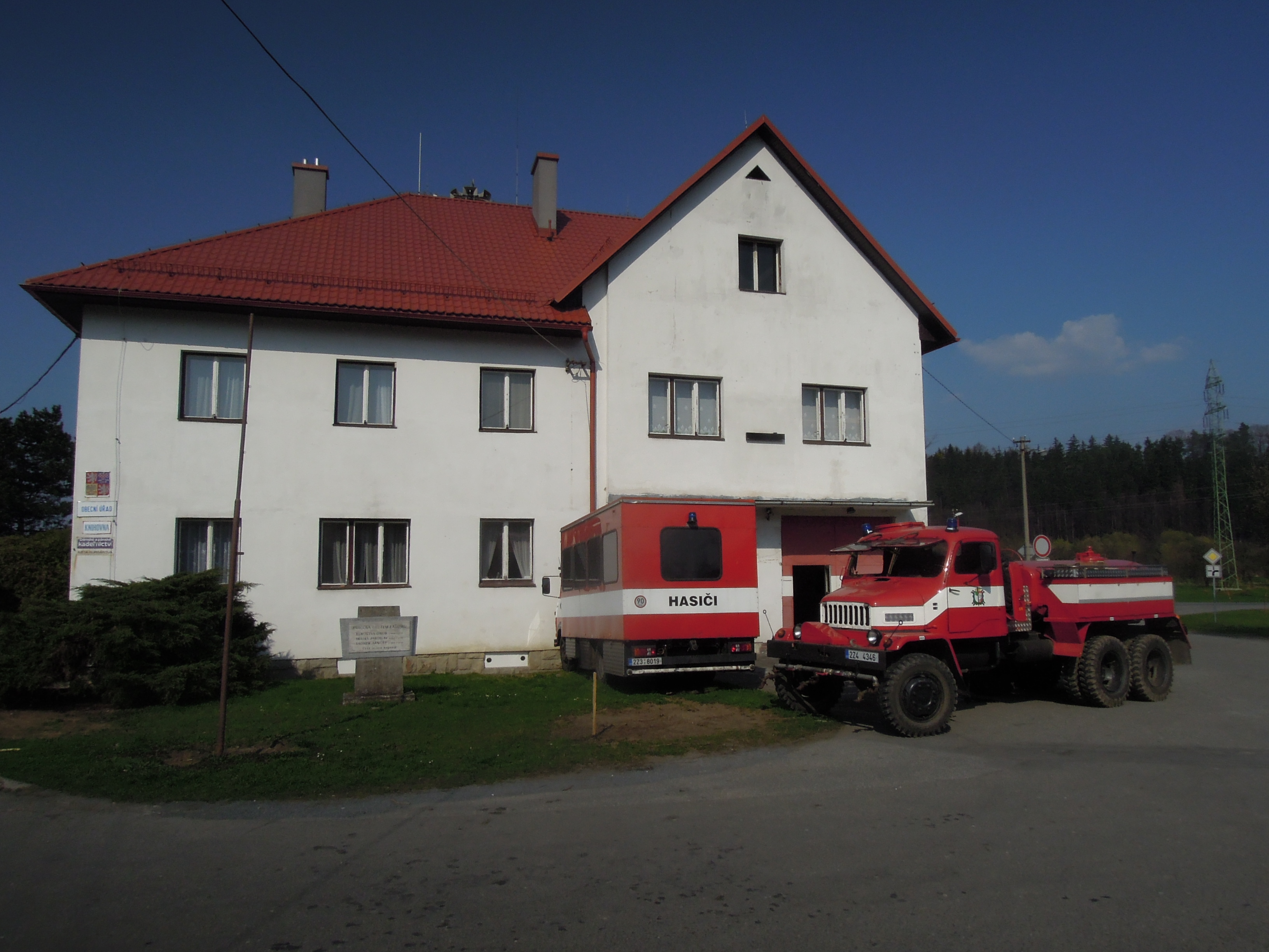 Local authority in Jarcová, Vsetín District, Zlín Region, Czech Republic